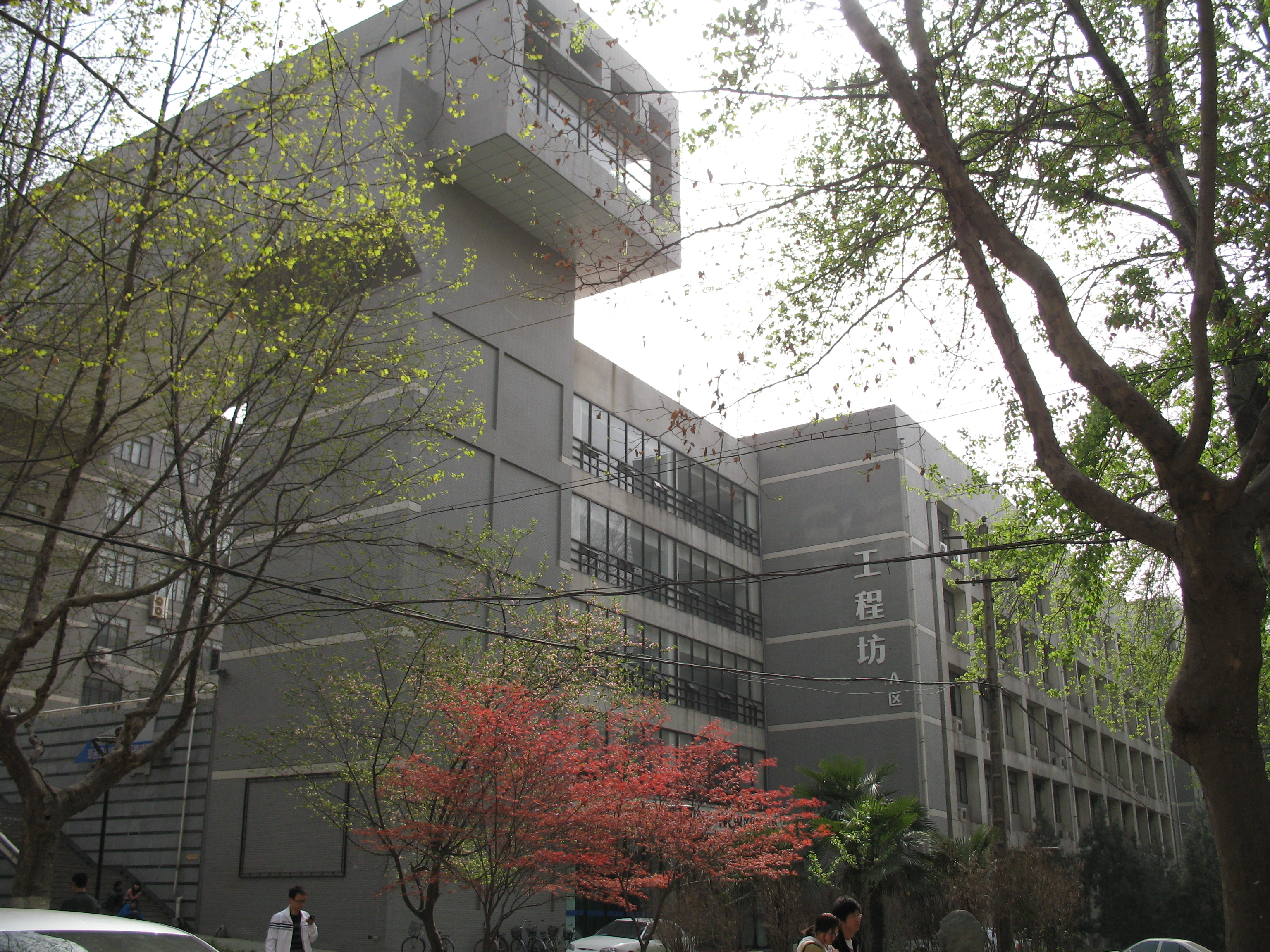 Engineering Workshop of Xi'an Jiaotong University.